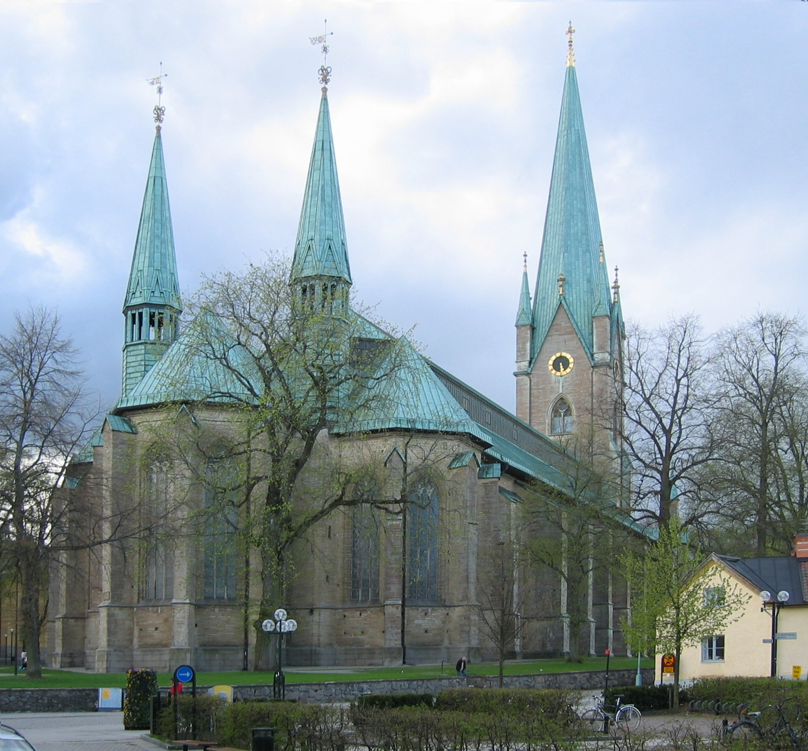 Linköping Cathedral in Linköping, Sweden, seen from the north-east.